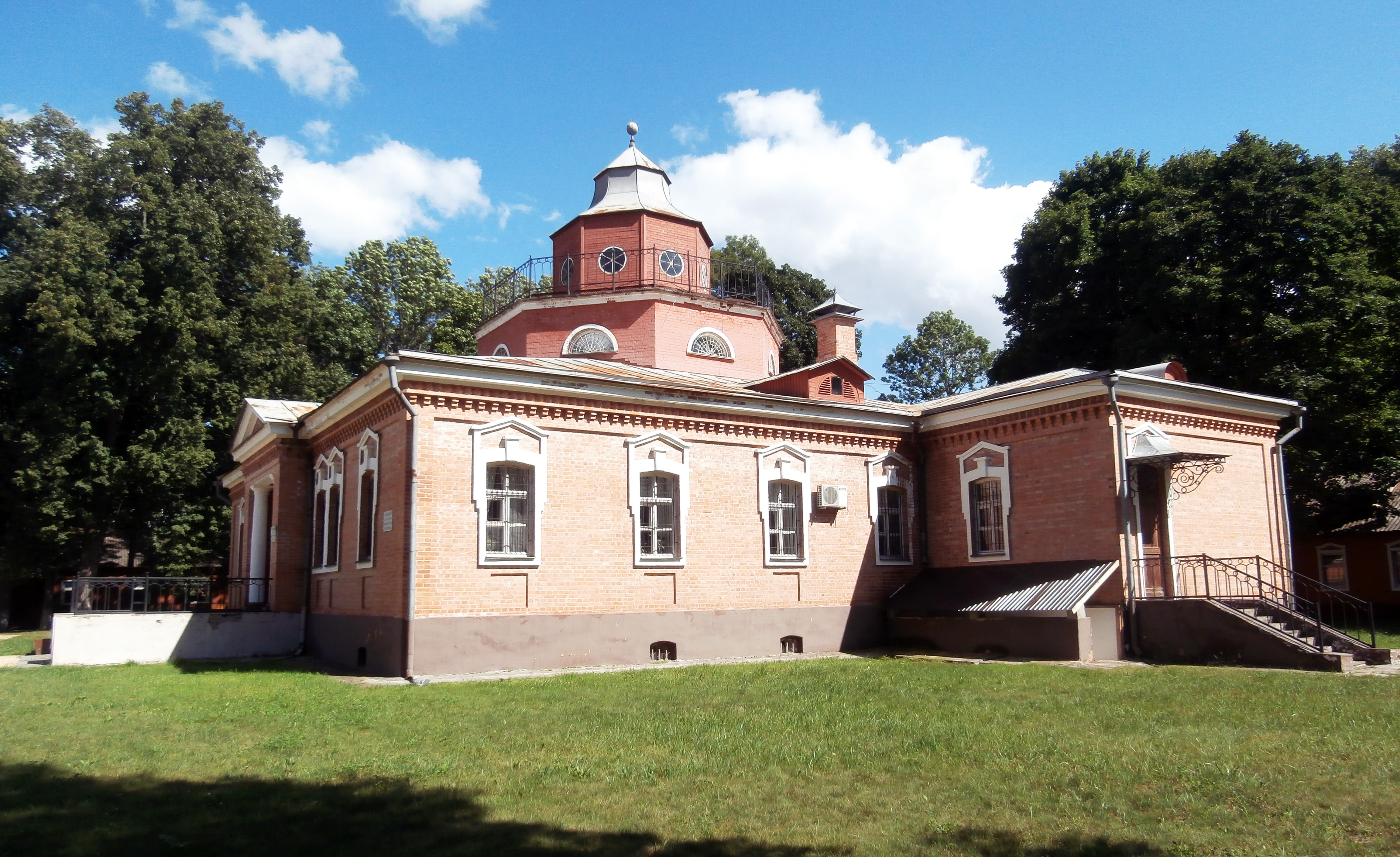 The house of Aleksey Konstantinovich Tolstoy in village Krasnuy Rog.